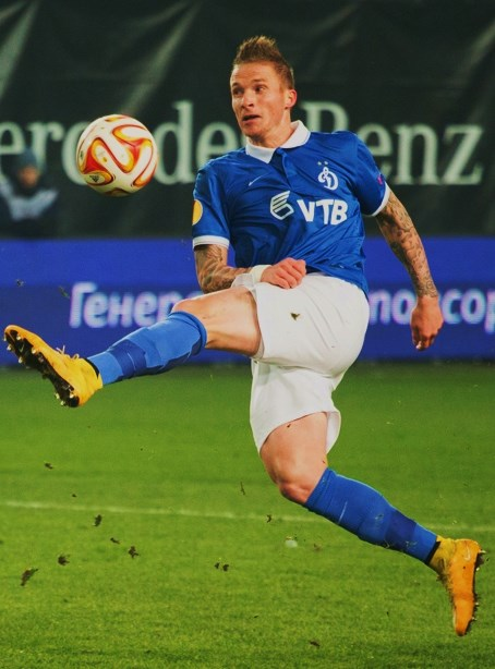 Alexander Büttner